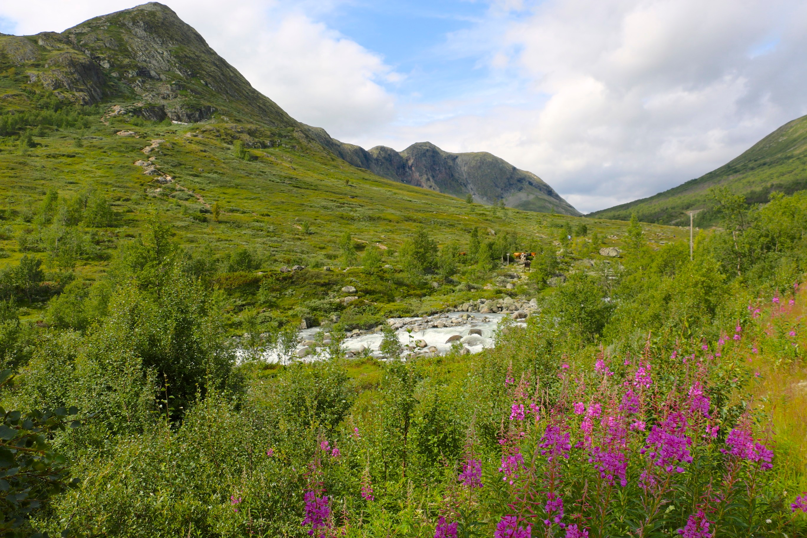 Memurudalen valley close to Memurubu